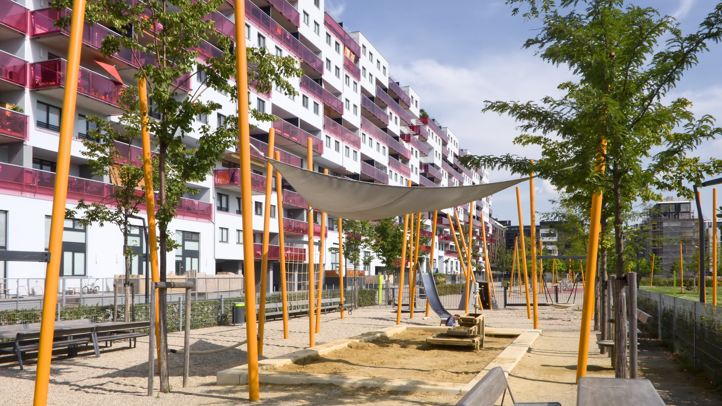 Rudolf-Bednar-Park in Vienna Leopoldstadt